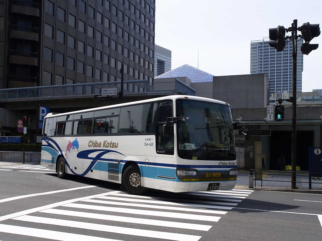 Fleet of Chiba Kotsu, Hino Selega R KL-RU4FSEA (license plate: CBC200 KA1309), for intercity express "Tone Liner". At Hamamatsucho Bus Terminal, Minato Ward, Tokyo, Japan